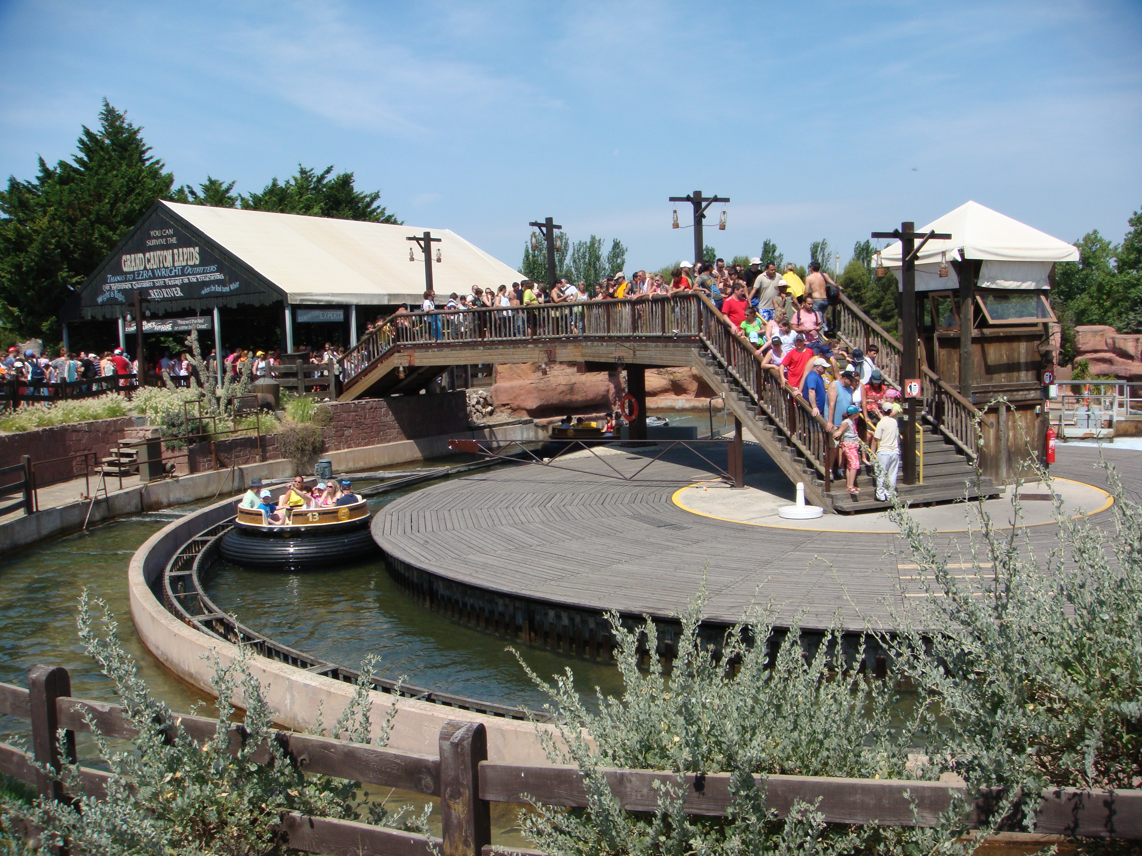 Grand Canyon Rapids starting